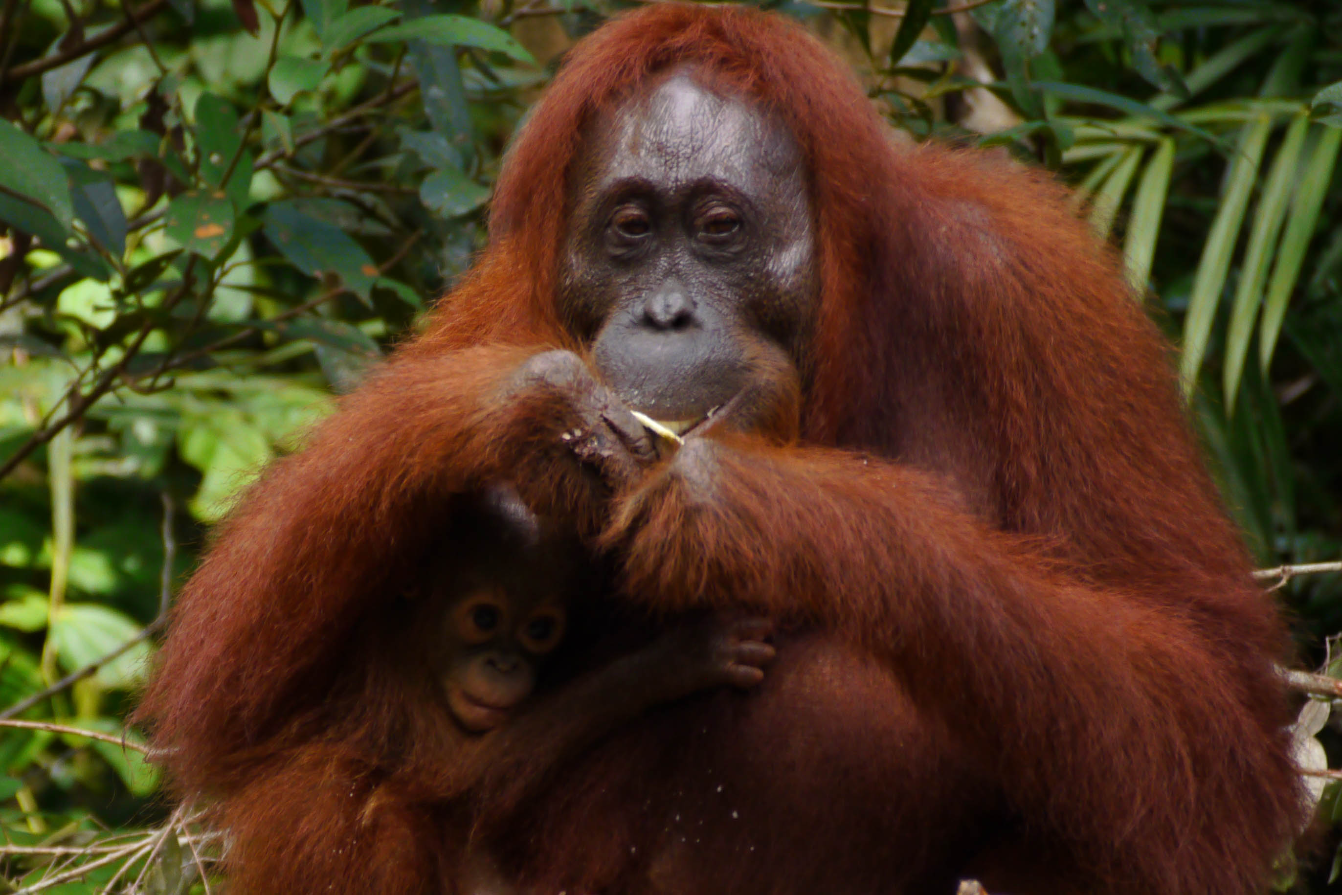 Female of orangutan in Tanjung Puting National Park,Central Kalimantan, Borneo.